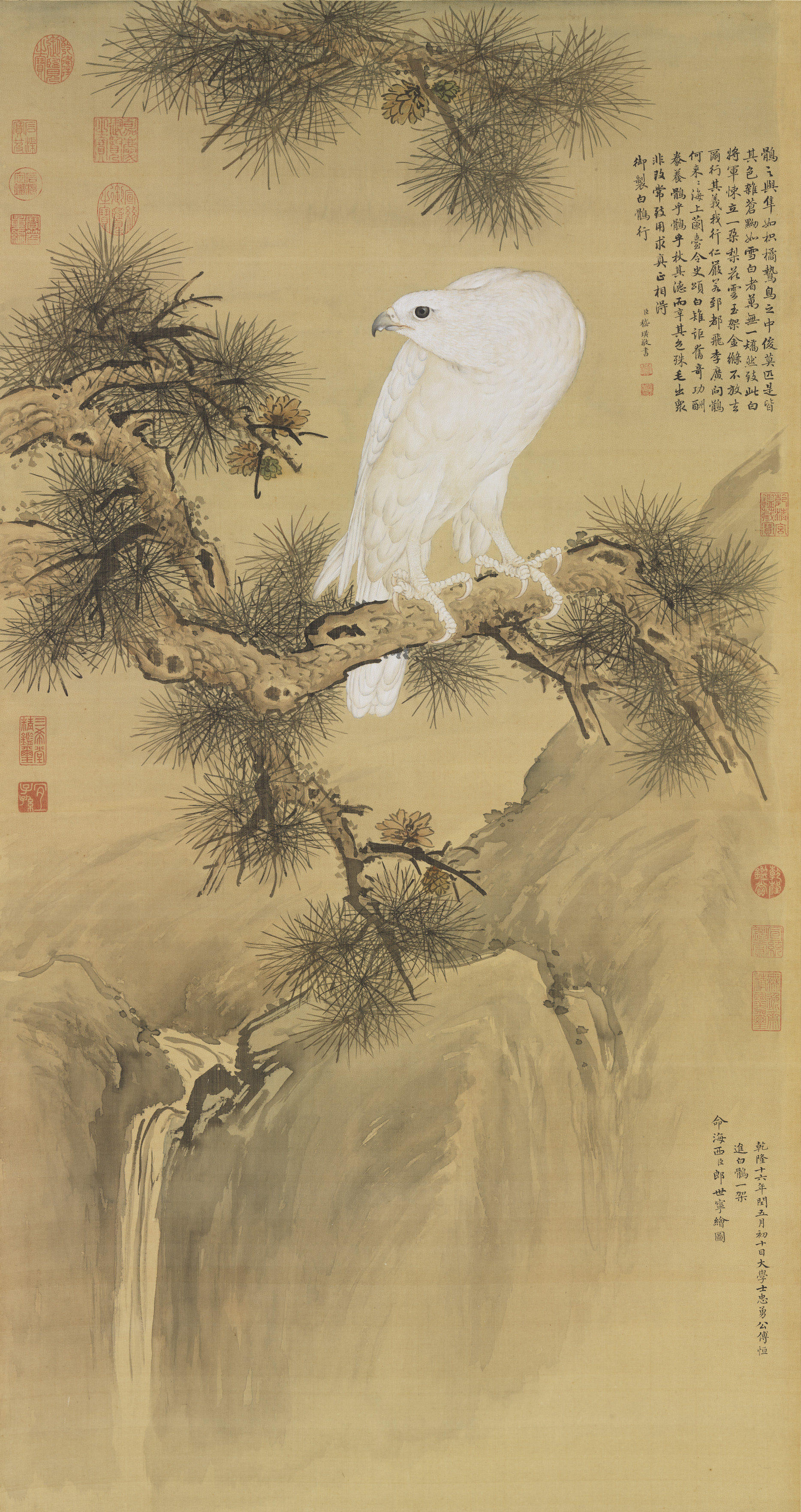 In the sixteenth year of the Qianlong emperor’s reign (1751), the high court official Fuheng (1720-1770) presented this white bird of prey as tribute, and Giuseppe Castiglione was ordered to paint it from life, the pine tree and landscape with a waterfall added by another court artist. The branch of an old pine tree extends across the composition with a white bird of prey (falcon) perched on it, a cascade descending into the valley behind. The falcon with its short flat head peers out, its eyes sparkling black. It also has a pointed beak and muscular legs with sharp talons. The ruling Manchu at the Qing court often received birds of prey as tribute, reflecting the common interests and heritage they shared with northern nomadic peoples. source